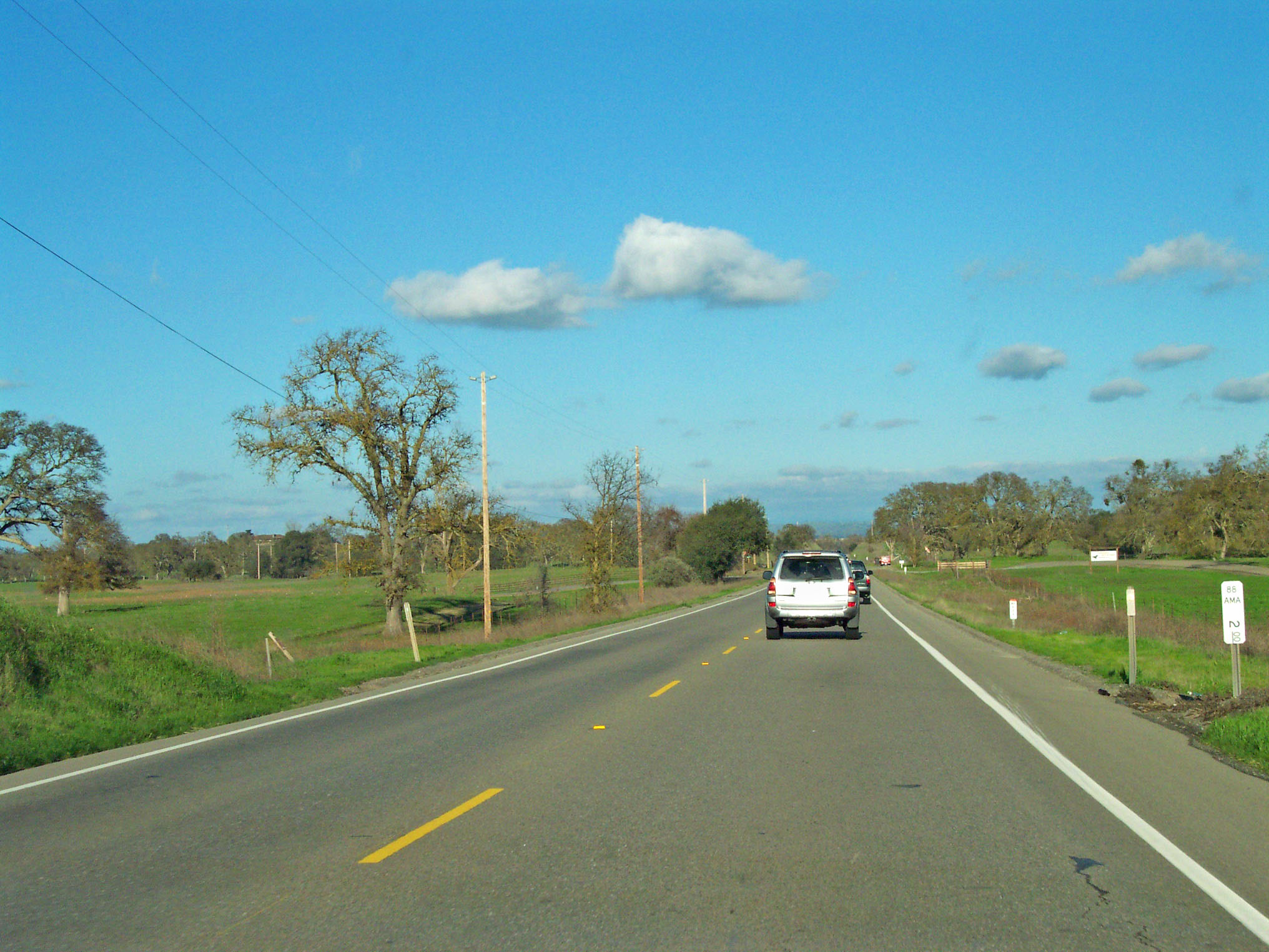 Valley Oak (Quercus lobata) savanna woodlands — along California State Route 12 in the eastern San Joaquin Valley, California. Located in San Joaquin County, between Lodi and Jackson.